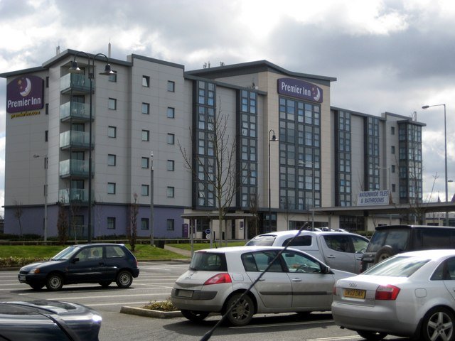 Premier Inn, Swords. Previously branded as 'Tulip Inn'. 526902.